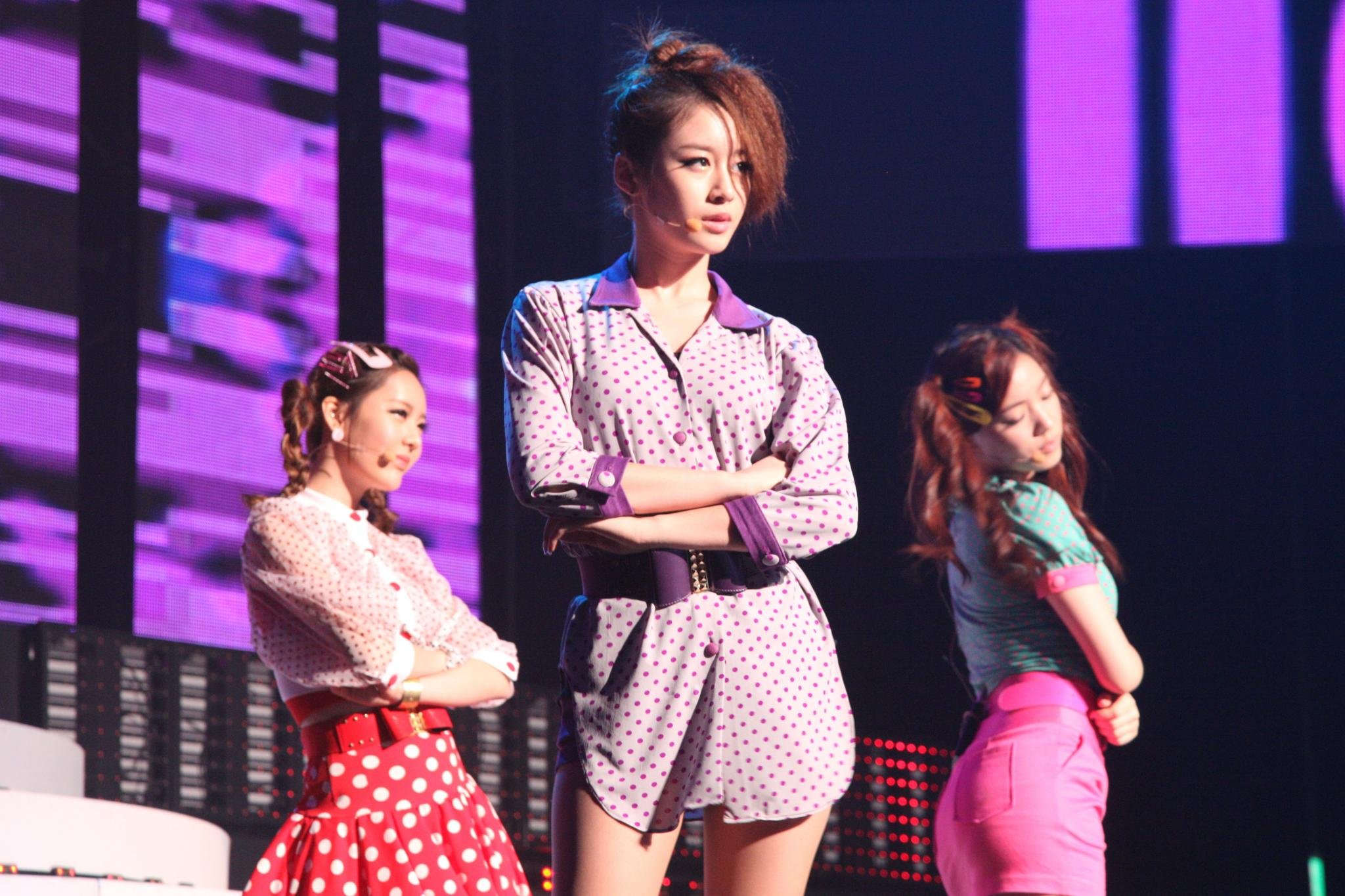 T-ara performing live in Cyworld Dream Music Festival in July 2011